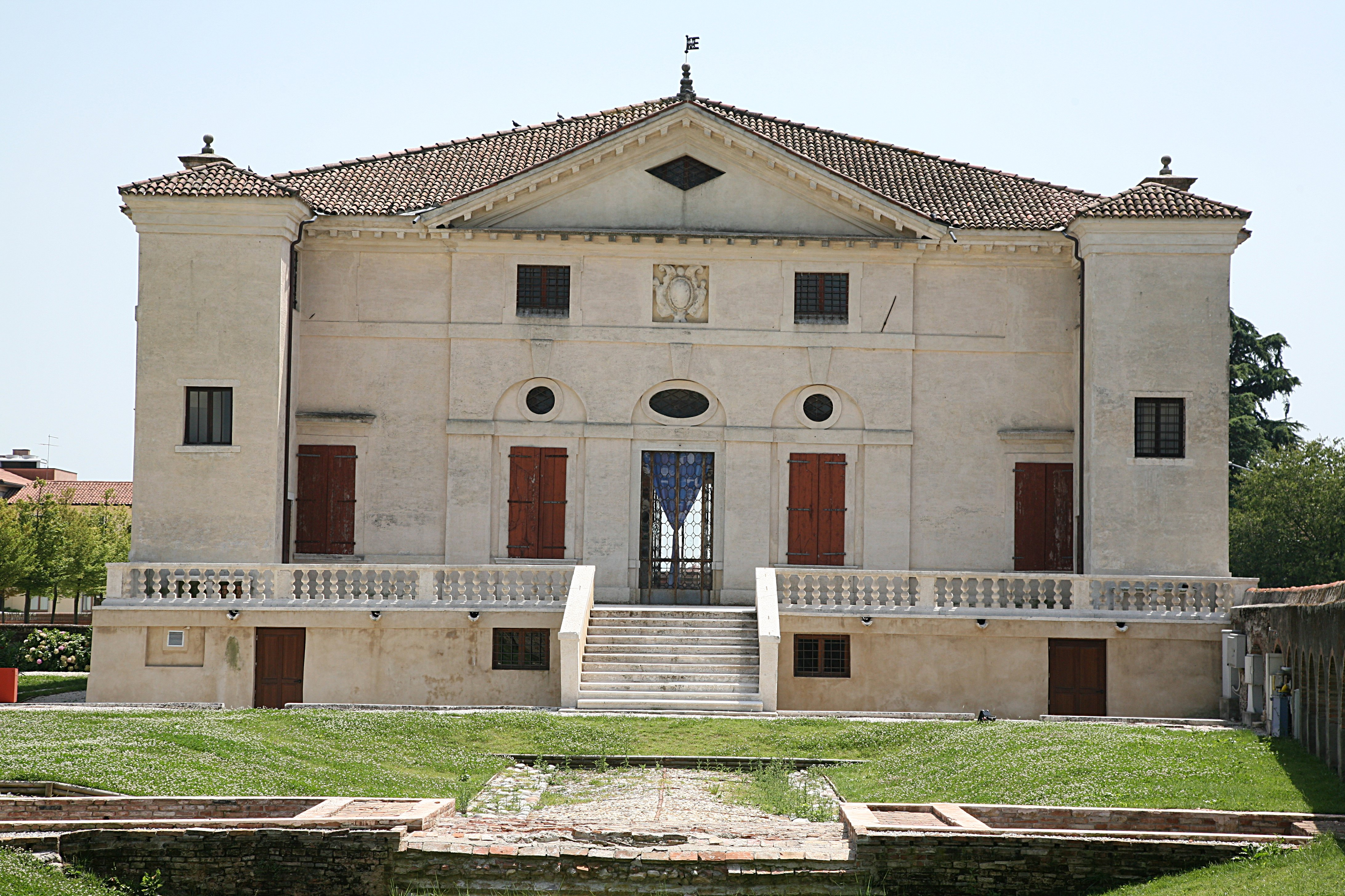 A Villa in Caldogno in Italy. Attributed to Andrea Palladio Seen from the back